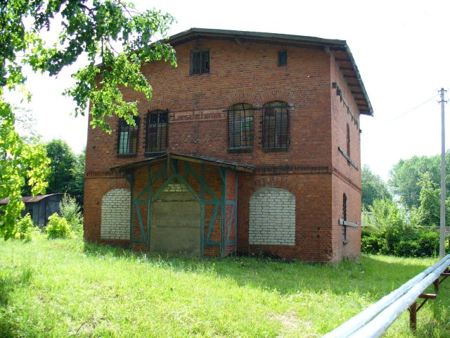 Former railway station in Krasnoznamensk.